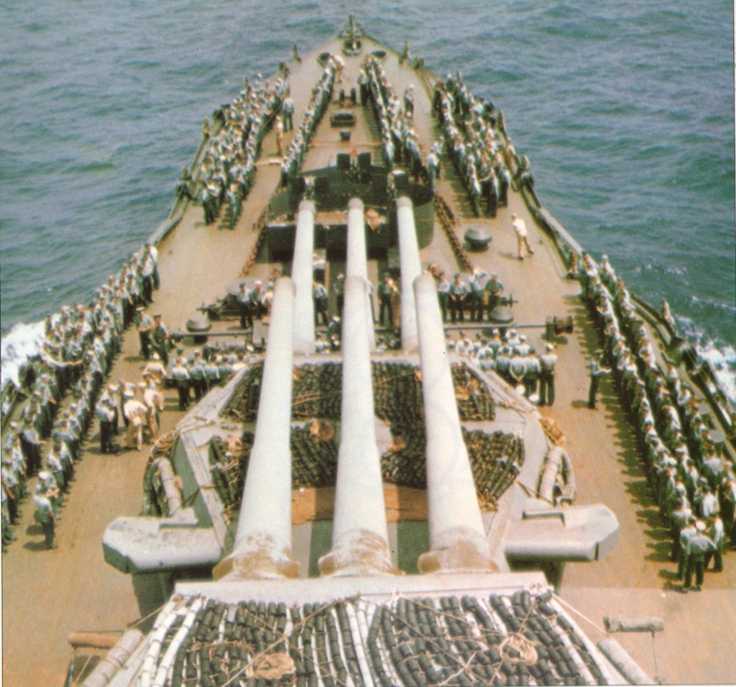 The foredeck of a United States Navy New Mexico-class battleship on 30 July 1944, showing her two forward triple gun turrets.